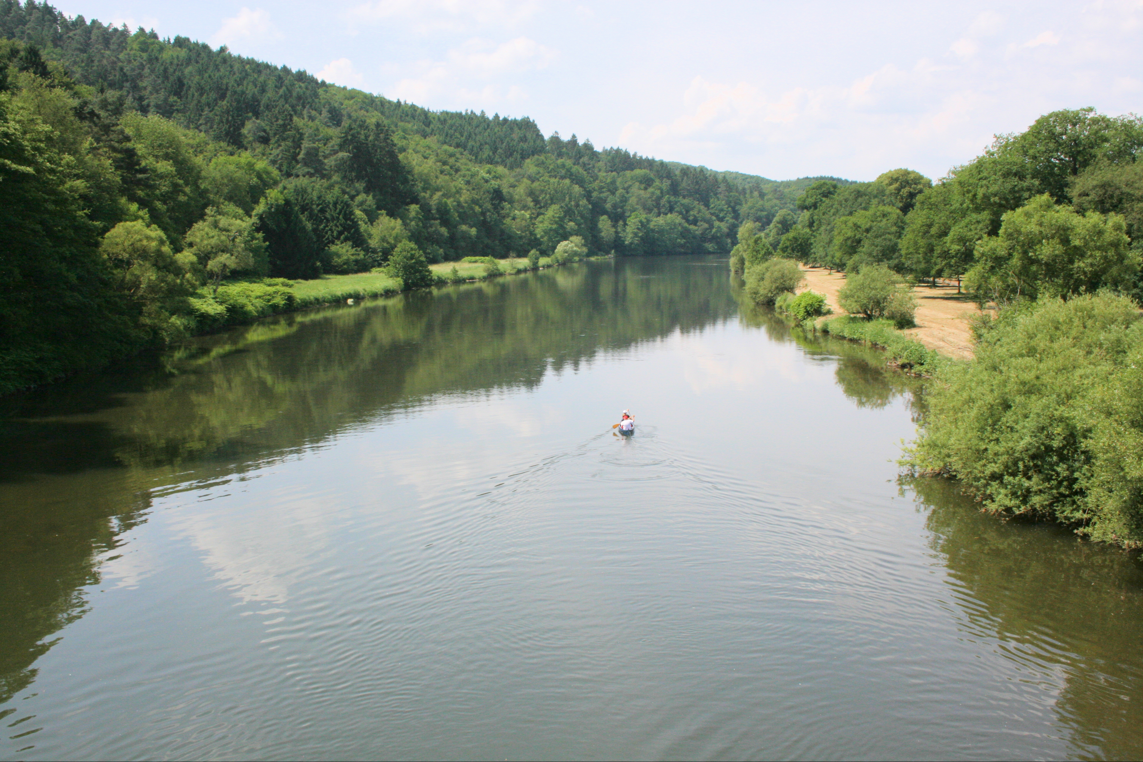 Valley of the river Sieg in Germany